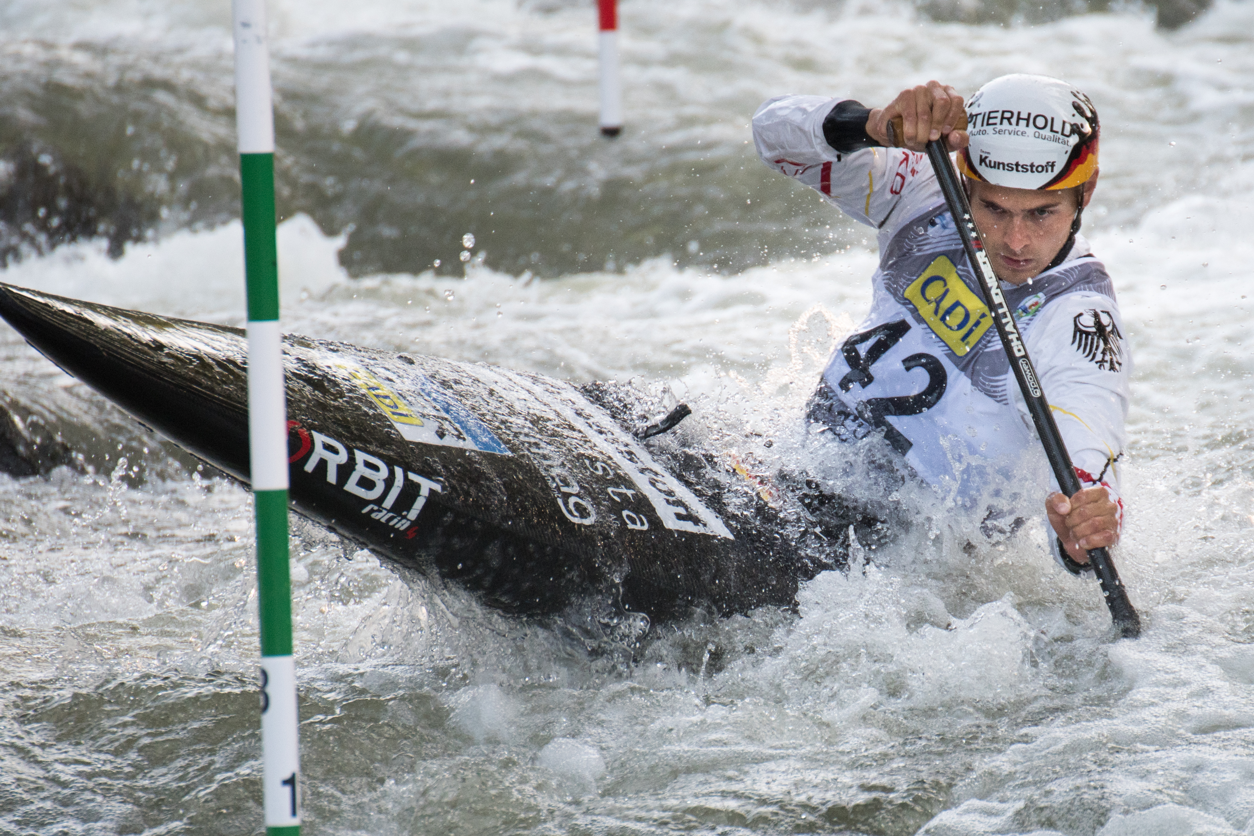 Florian Breuer during the 2019 Canoe Slalom World Championships in La Seu d'Urgell, Spain.